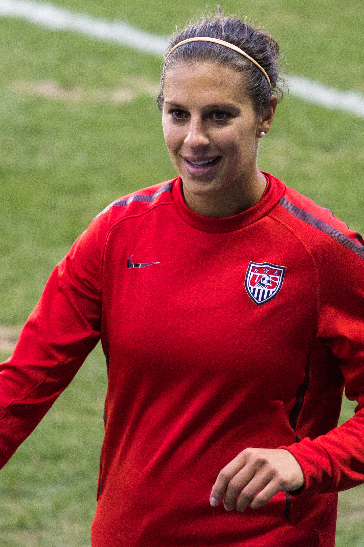 Carli Lloyd of the United States Women's National Soccer team warming up prior to a friendly match against Canada on September 17th, 2011.